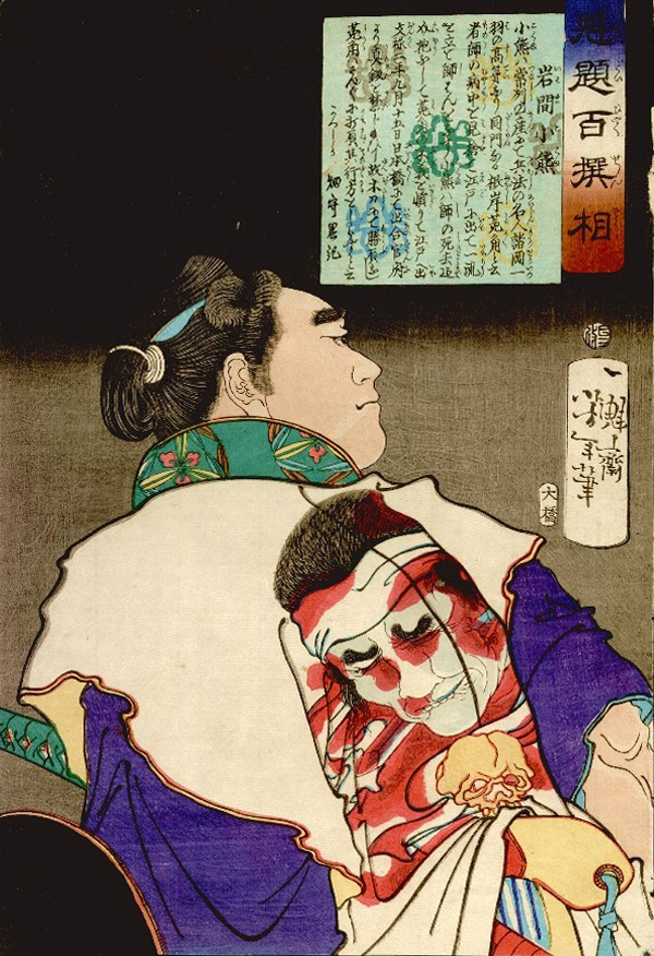 An ukiyo-e of Iwama Oguma.